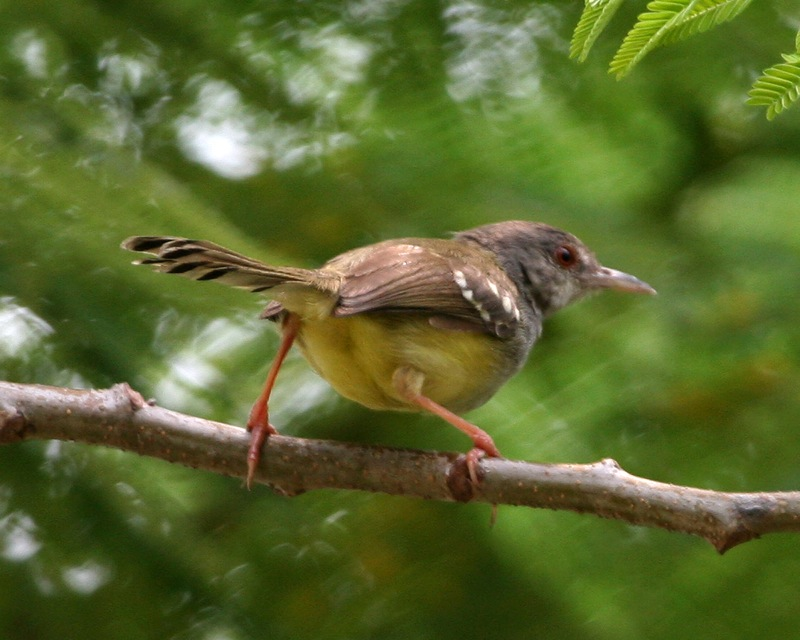 Bar-winged Prinia (Prinia familiaris) hote near International Airport, Jakarta ,Java, Indonesia November 19, 2005 Distribution: IMG_7610